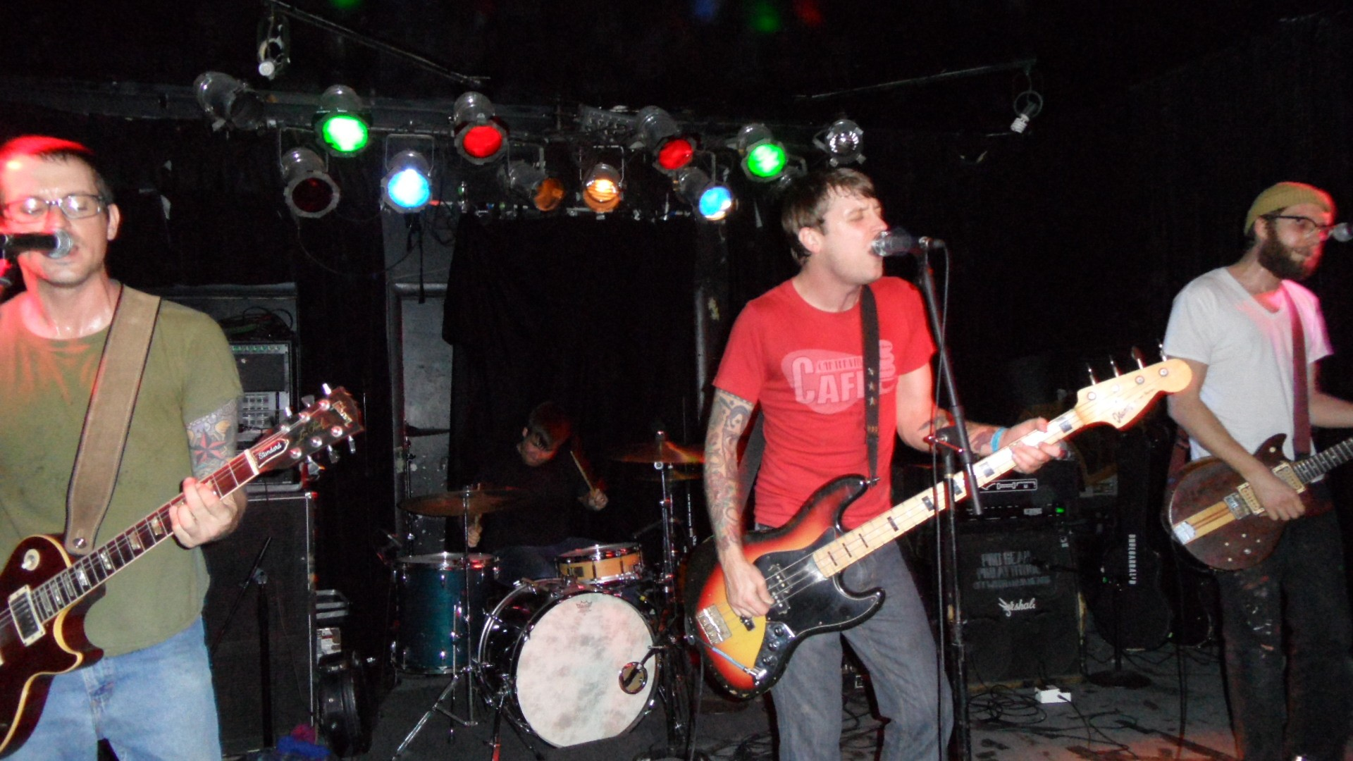 Carbondale, IL punk band The Copyrights performing at the Beat Kitchen in Chicago on 3/9/2013